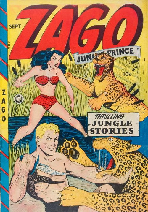 Cover of Zago, Jungle Prince #1, published by Fox Feature Syndicate. Since this comic book was first published in the U.S. before 1964, the original copyright lasted 27 years from the end of the year of first publication. The copyright holder was free to renew the copyright any time during the year 1977, but they did not do so. (All copyright renewals after 1977 can be searched online here.) The copyright has expired.